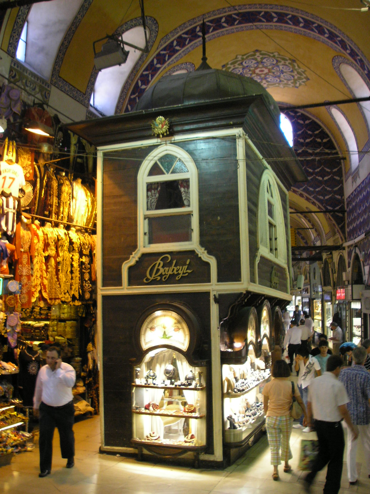 One of the kiosk from the 17th century, that used to be a small cafe. Located close to Aynacilar Sok and the Zincirli Hanı.